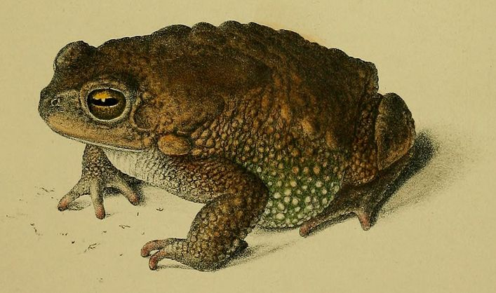 Duttaphrynus valhallae. Illustration from the original species description (as Bufo valhallae) by Geoffrey Meade-Waldo.